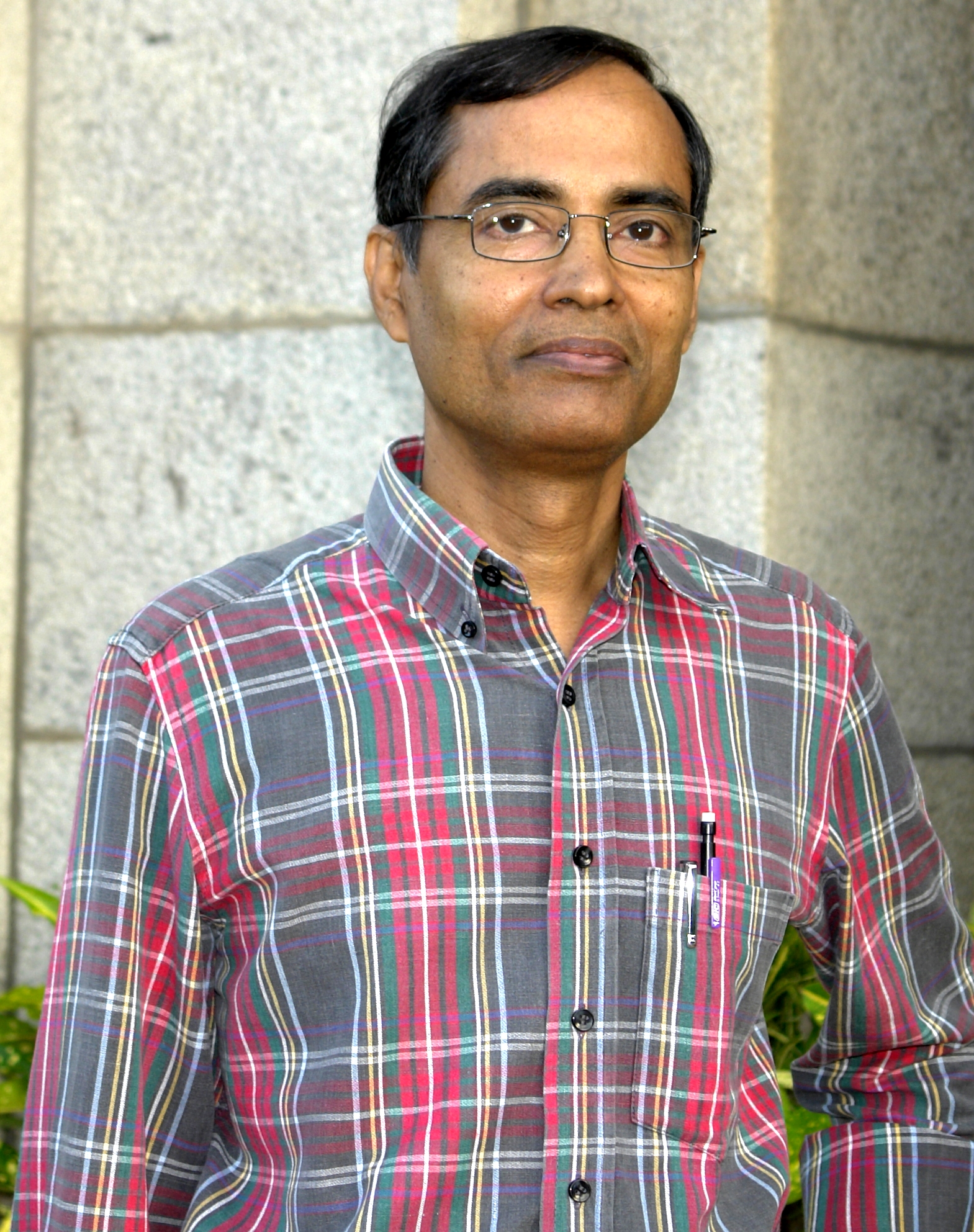 Prof. Eluvathingal Devassy Jemmis